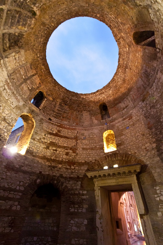 Vestibule, Diocletian's Palace, Split